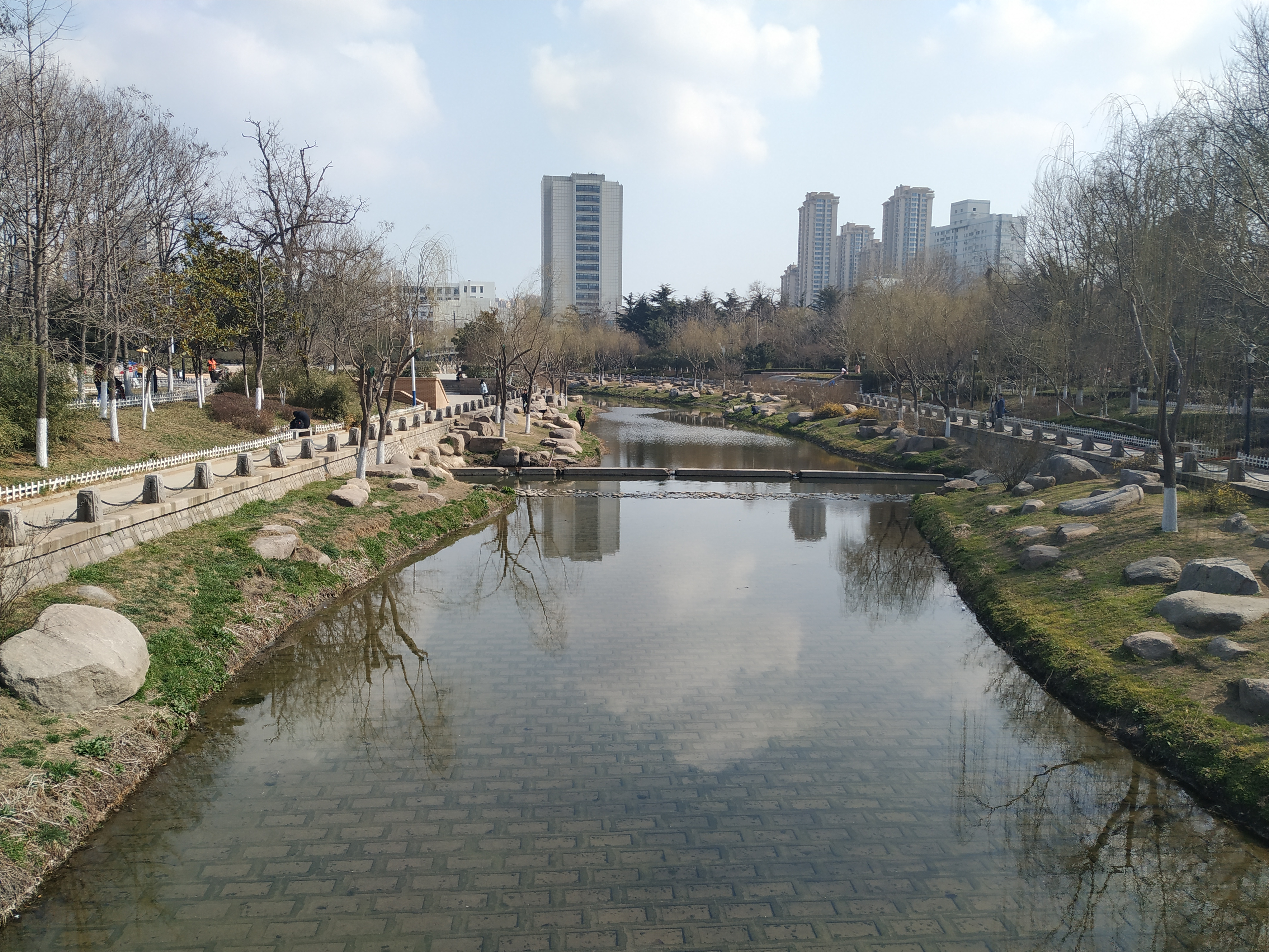 Haipo River flows in the Haipo River Park